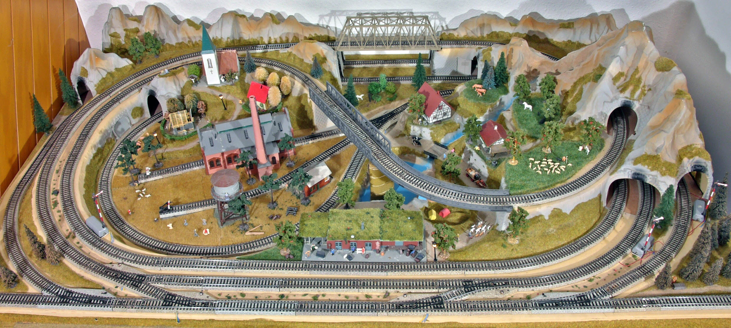 Model railway for H0 track size from about 1955. Name: 'Mittenwald, manufactured by: Noch GmbH & Co. KG